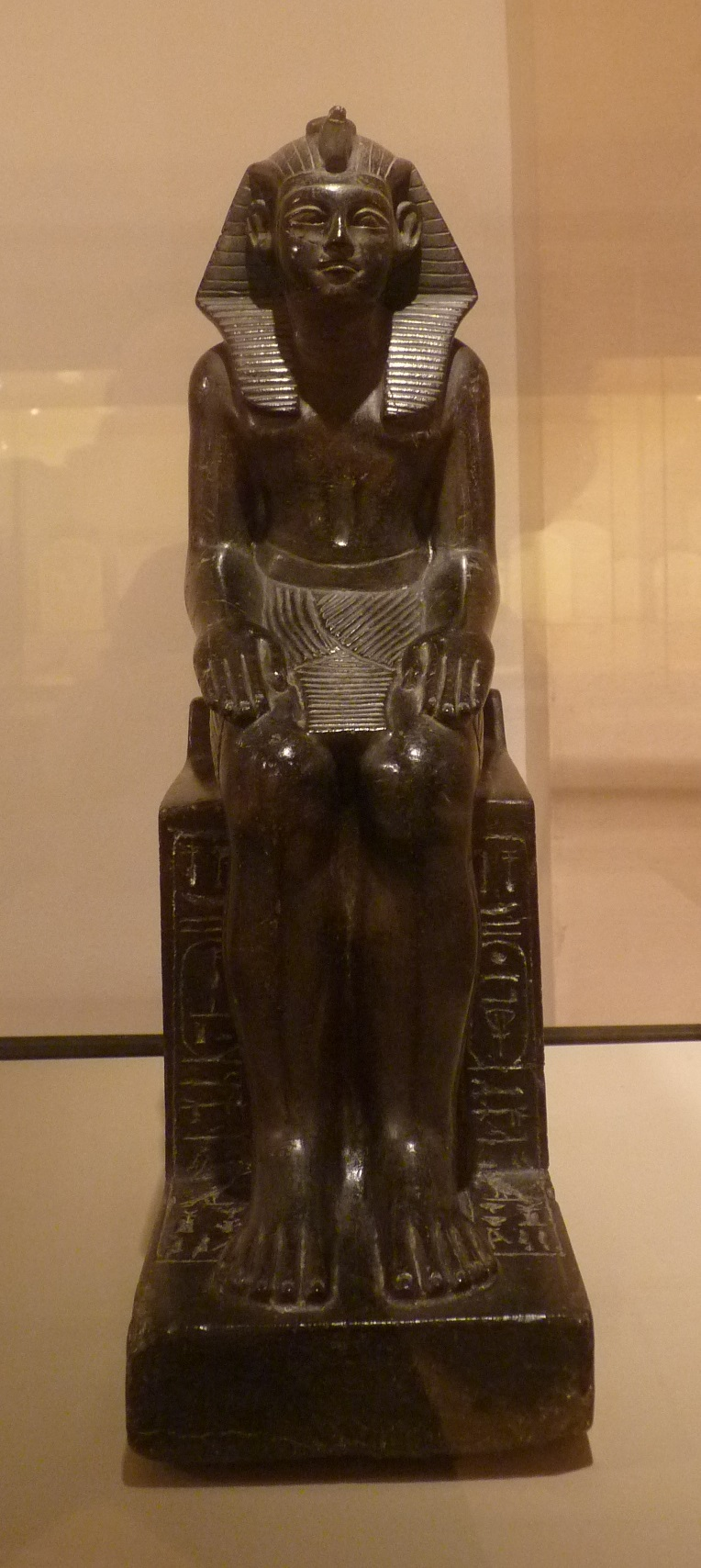 Small statue of pharaoh Khasekhemre Neferhotep I. Microgabbro (diabase) from Faiyum. Reign of Neferhotep I (around 1740 BCE), 13th dynasty, Middle Kingdom. Archeological Museum of Bologna (Italy), KS 1799.